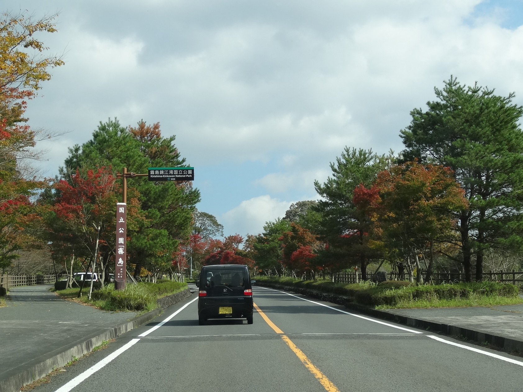 Kagoshima Prefectural Road No.60 Kokubu - Kirishima Line (Around the "Kirishima Shrine", Kirishima City, Kagoshima, Japan)